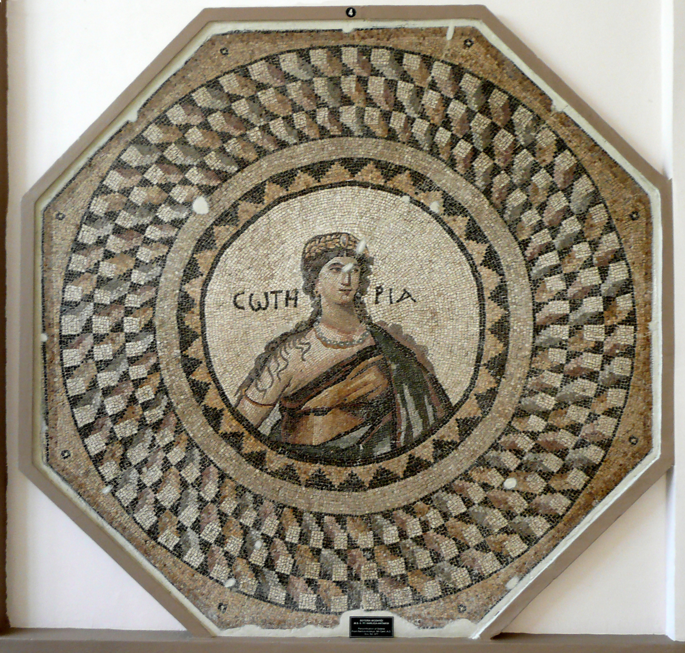 Photographs from Antakya Archaeological Museum; Octagonal mosaic with woman labeled with the Greek word Soteria, "safety" or "salvation".